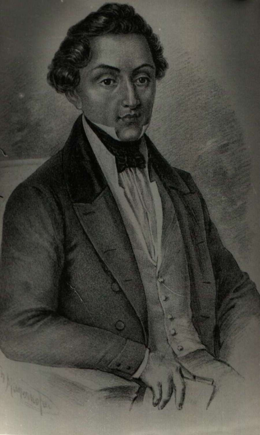 Ukrainian ethnographer Yuriy Venelin (1802-1839)